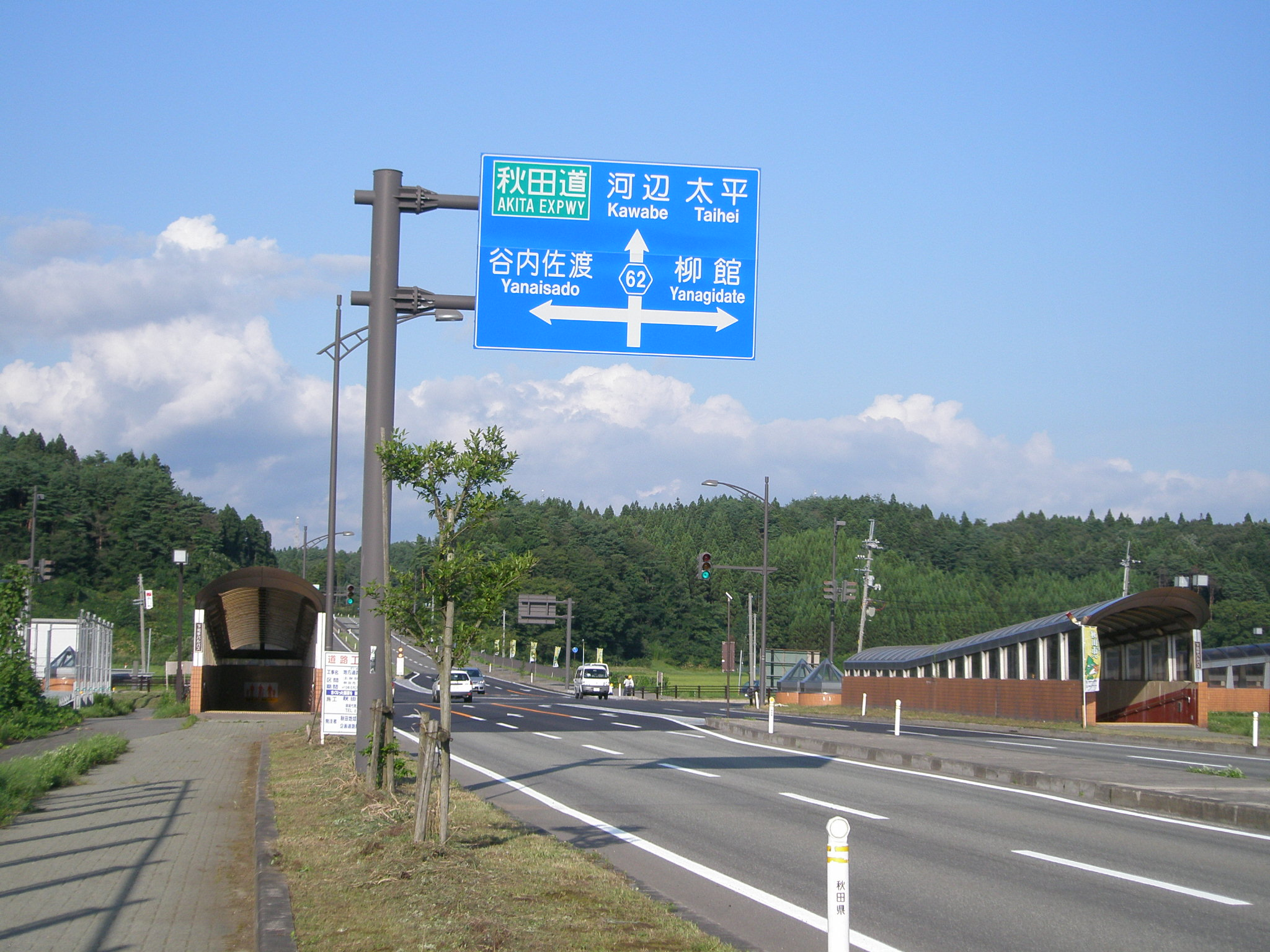 Akita prefectural road route 62 at Shimokitate, Akita city, Japan.